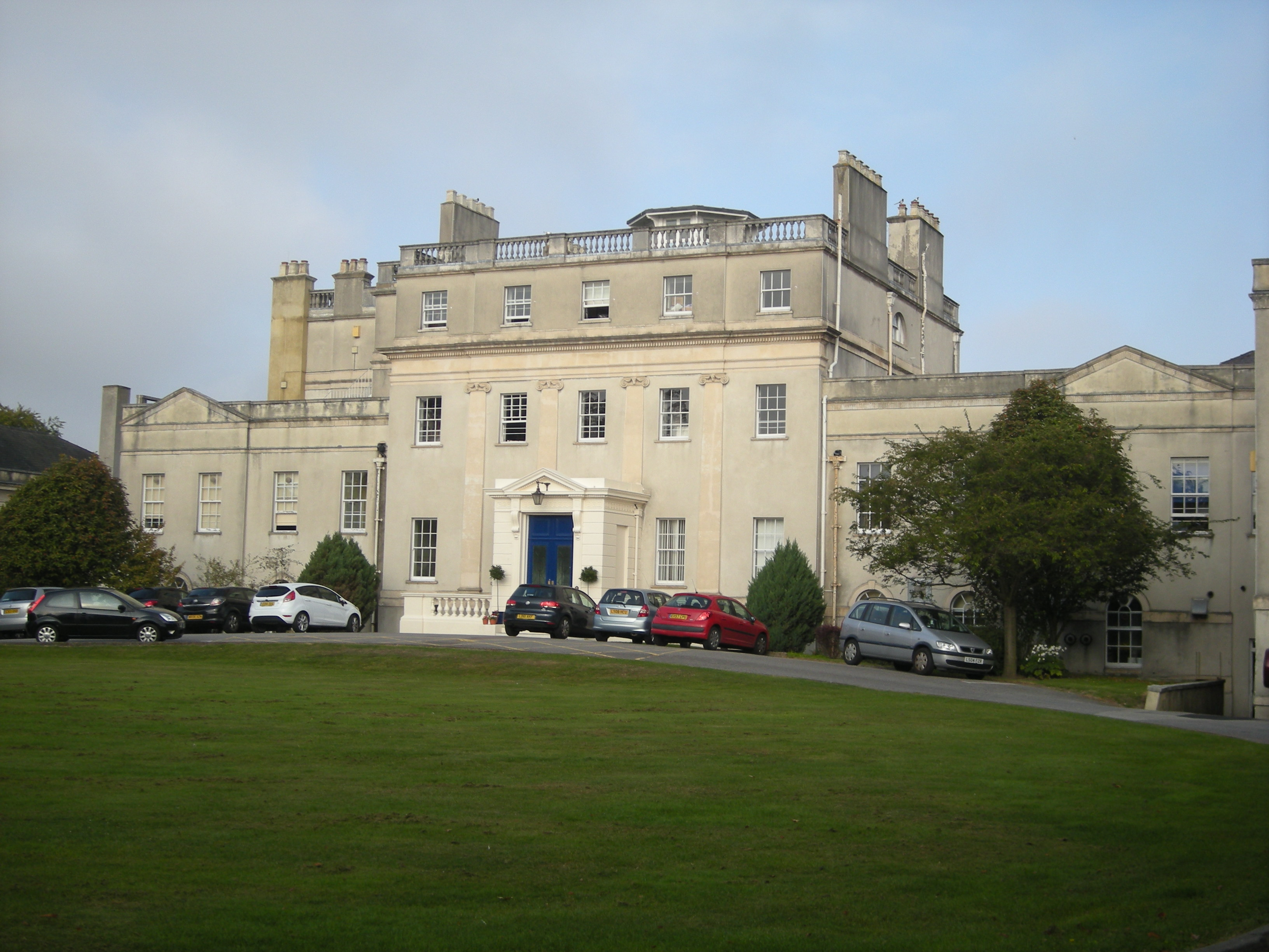 High Rd, Woodford Green, Essex